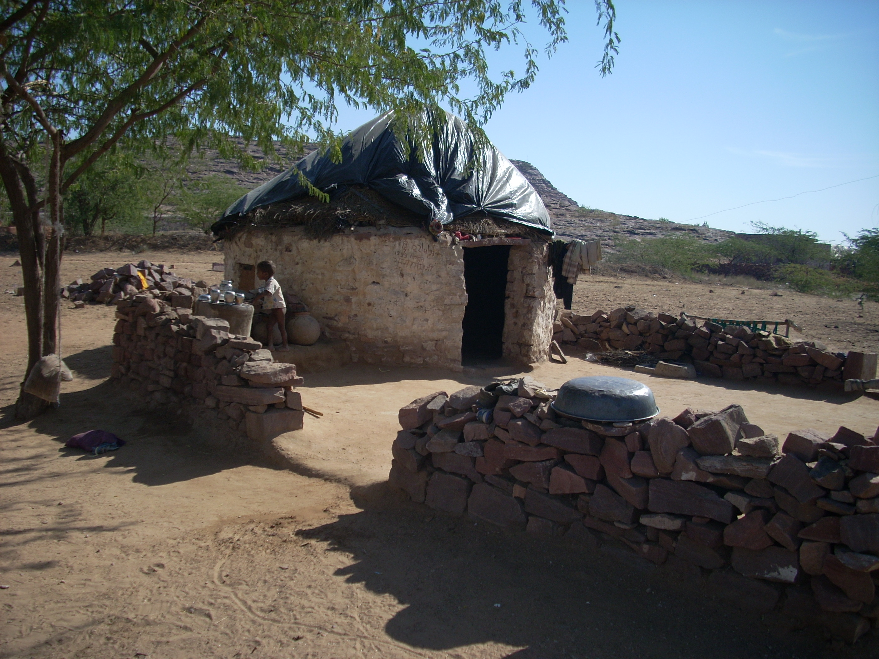 House of Dalit